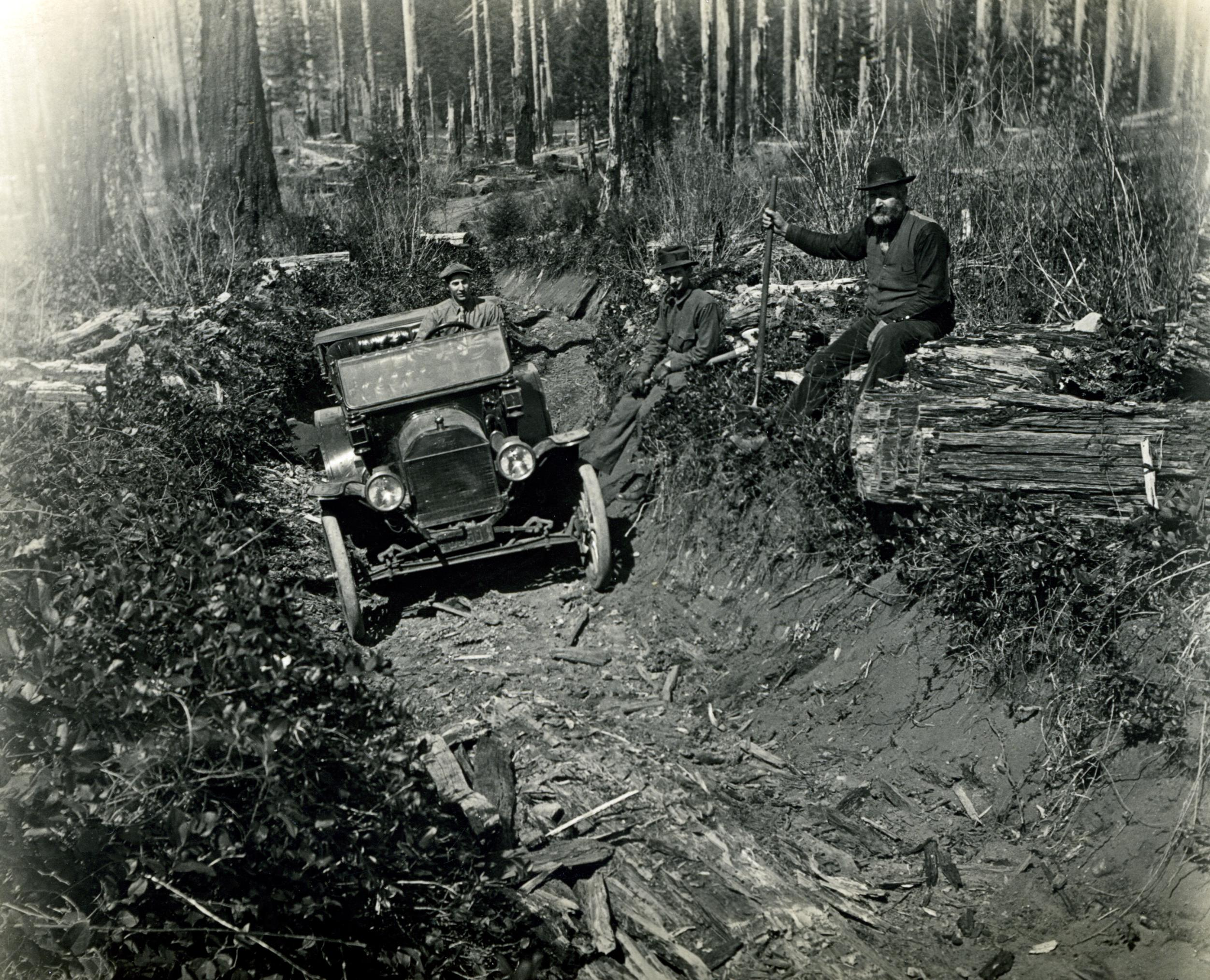 Original Collection: Gerald W. Williams Collection, 1855-2007 Item Number: WilliamsG: SVcar You can find this image by searching for the item number by clicking here. Want more? You can find more digital resources online. We're happy for you to share this digital image within the spirit of The Commons; however, certain restrictions on high quality reproductions of the original physical version may apply. To read more about what “no known restrictions” means, please visit the Special Collections & Archives website, or contact staff at the OSU Special Collections & Archives Research Center for details.